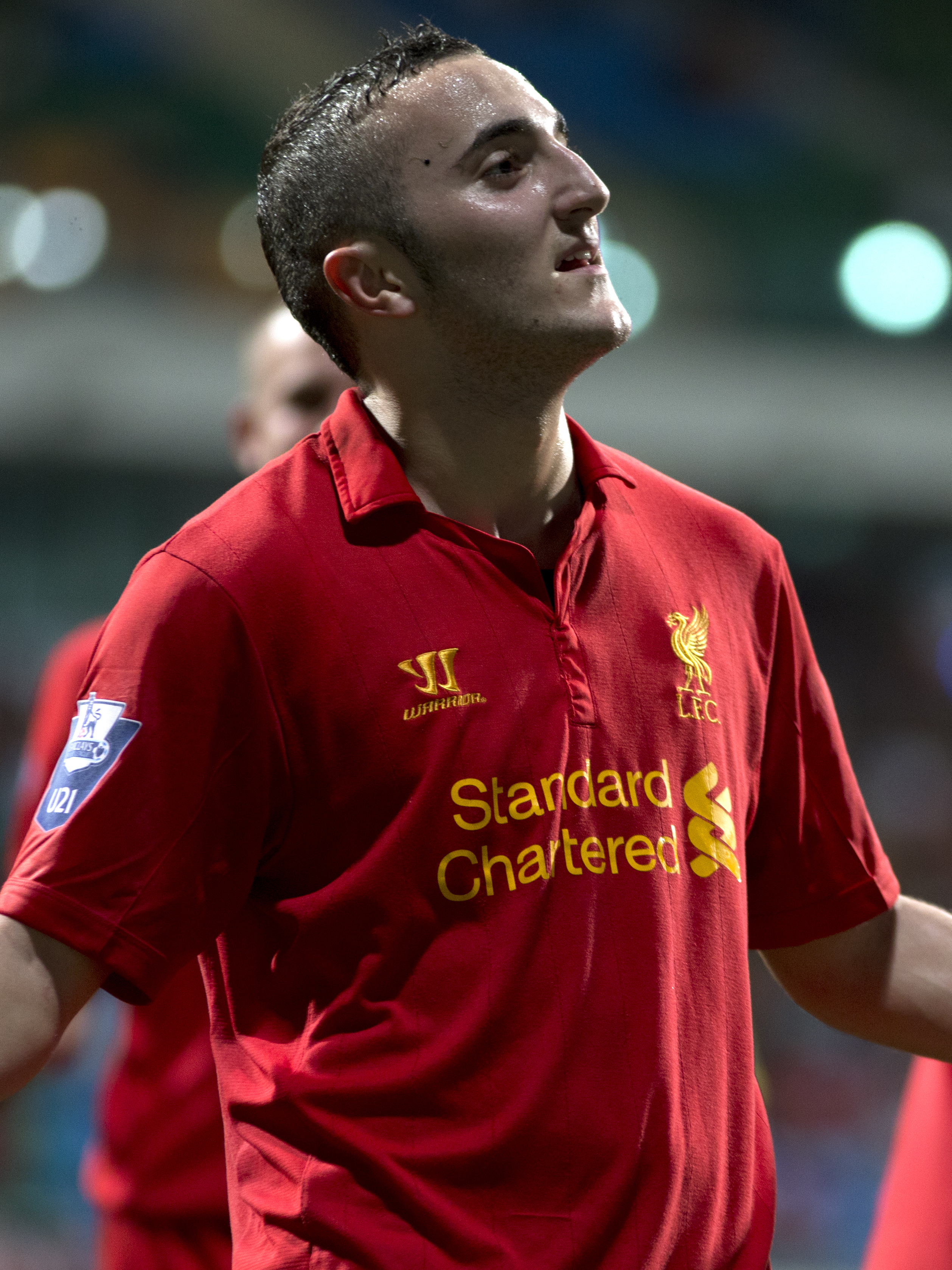 Samed Yesil celebrating scoring a goal for Liverpool U-19 in Nexlions Cup 2012 in Singapore on 14-12-2012.